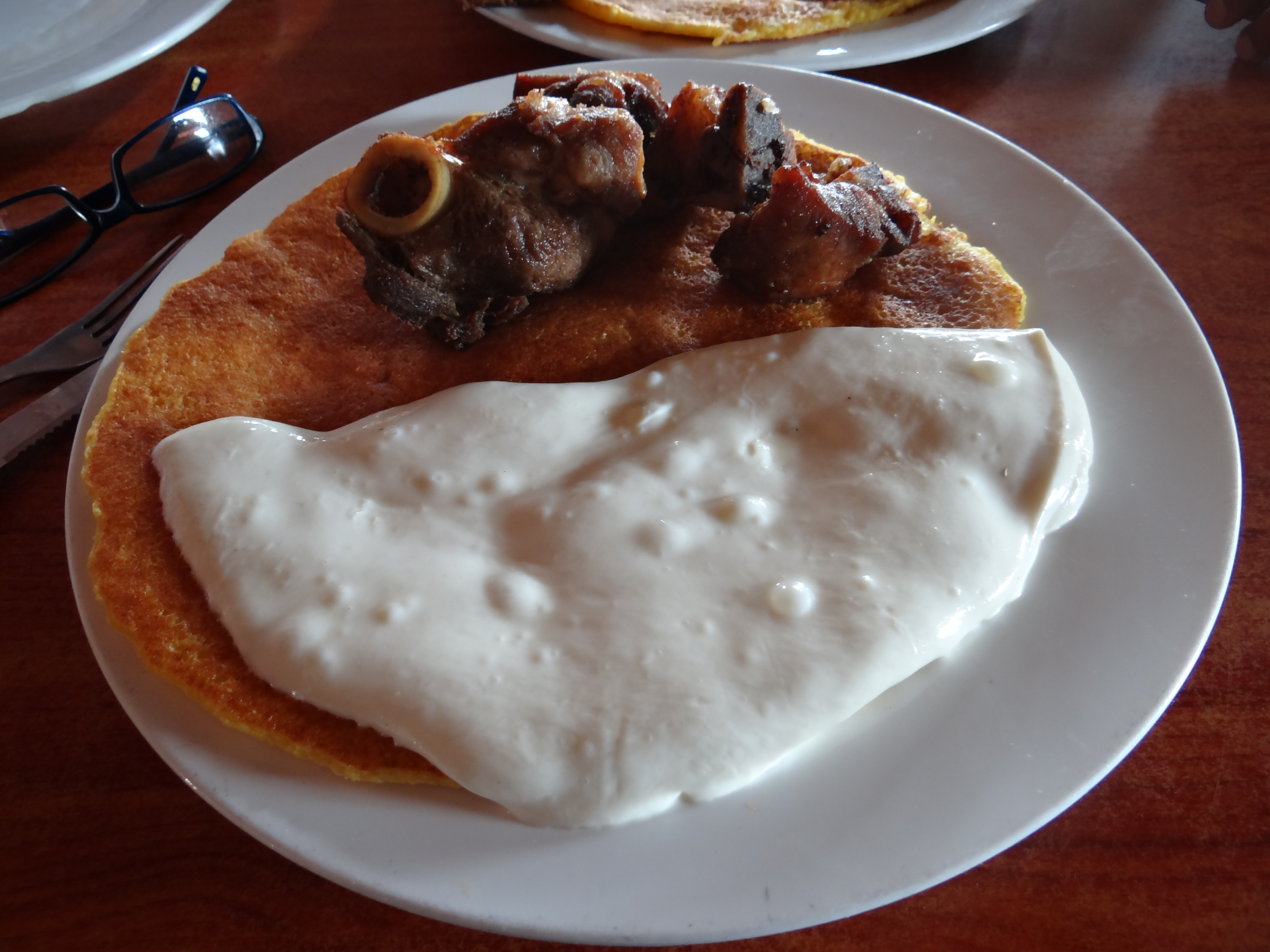 esta imagen representa un plato tipico del oriente venezolano como lo es el cochino frito. la cahapa de maiz o mazorca y el riquisimo queso de mano